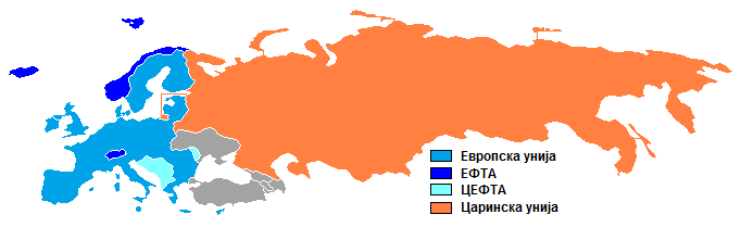 Economical blocs in Europe